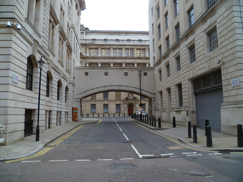 Scotland Place links Great Scotland Yard and Whitehall Place. The camera is in Great Scotland Yard.